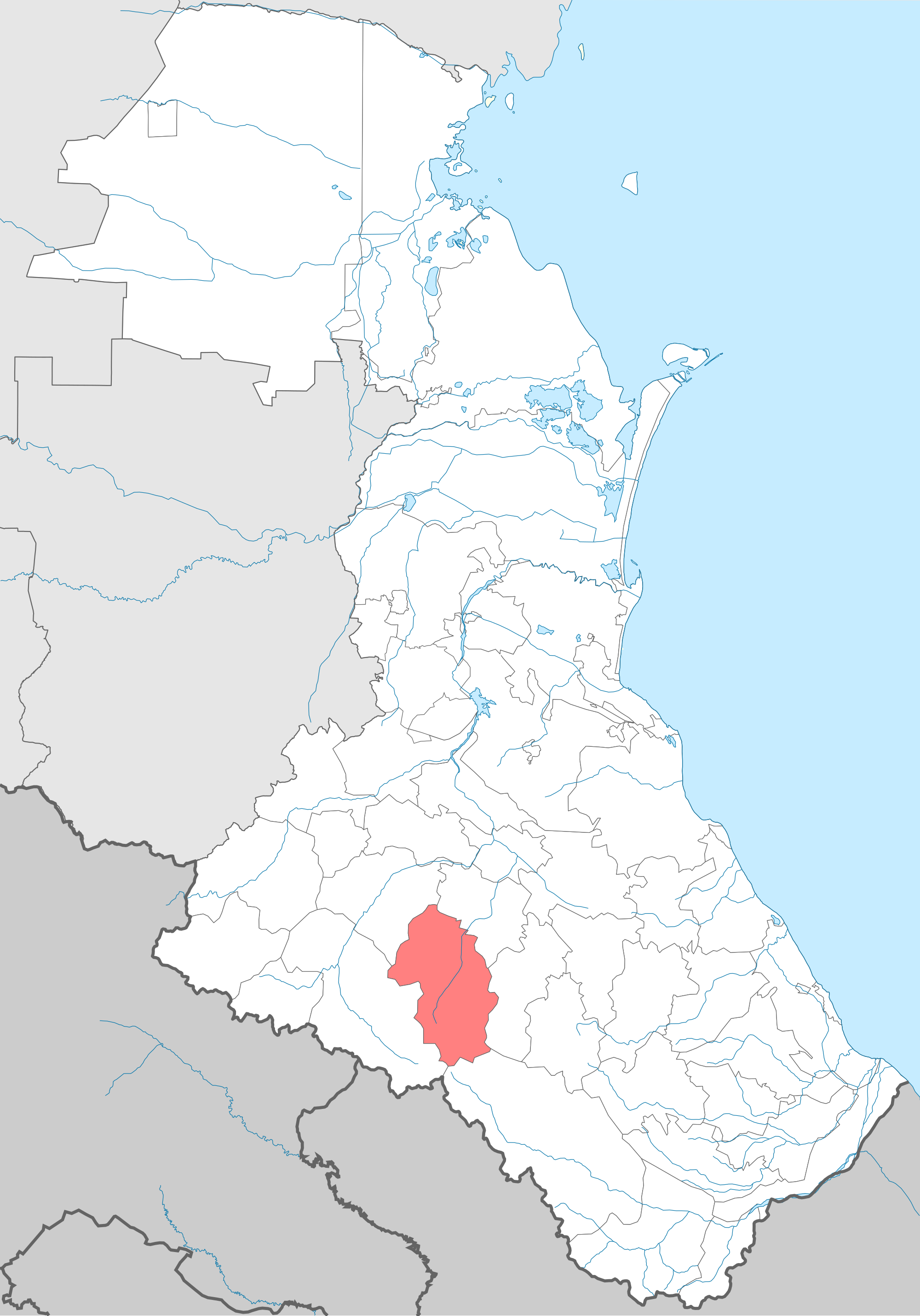 Charodinsky district locator map